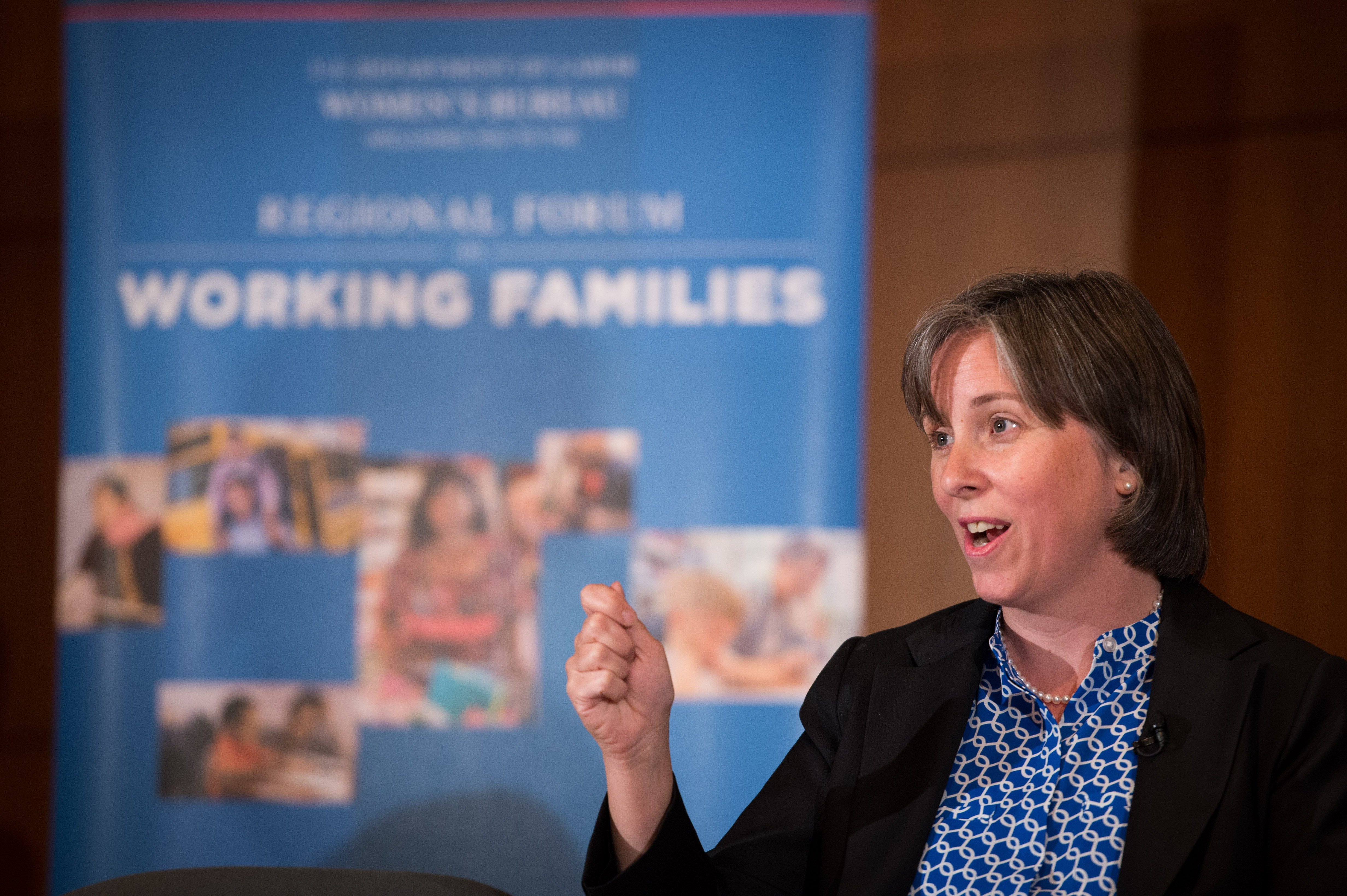 May 27, 2014 - San Francisco, California, United States: Ann O'Leary, Vice President and Director, Children and Families Program, Next Generation speaks as part of a panel on The California Experience and the Business Case for Working Family Policy atThe Department of Labor Regional Forum in San Francisco as part of the White House Summit on Working Families in the Milton Marks Auditorium, San Francisco, California.